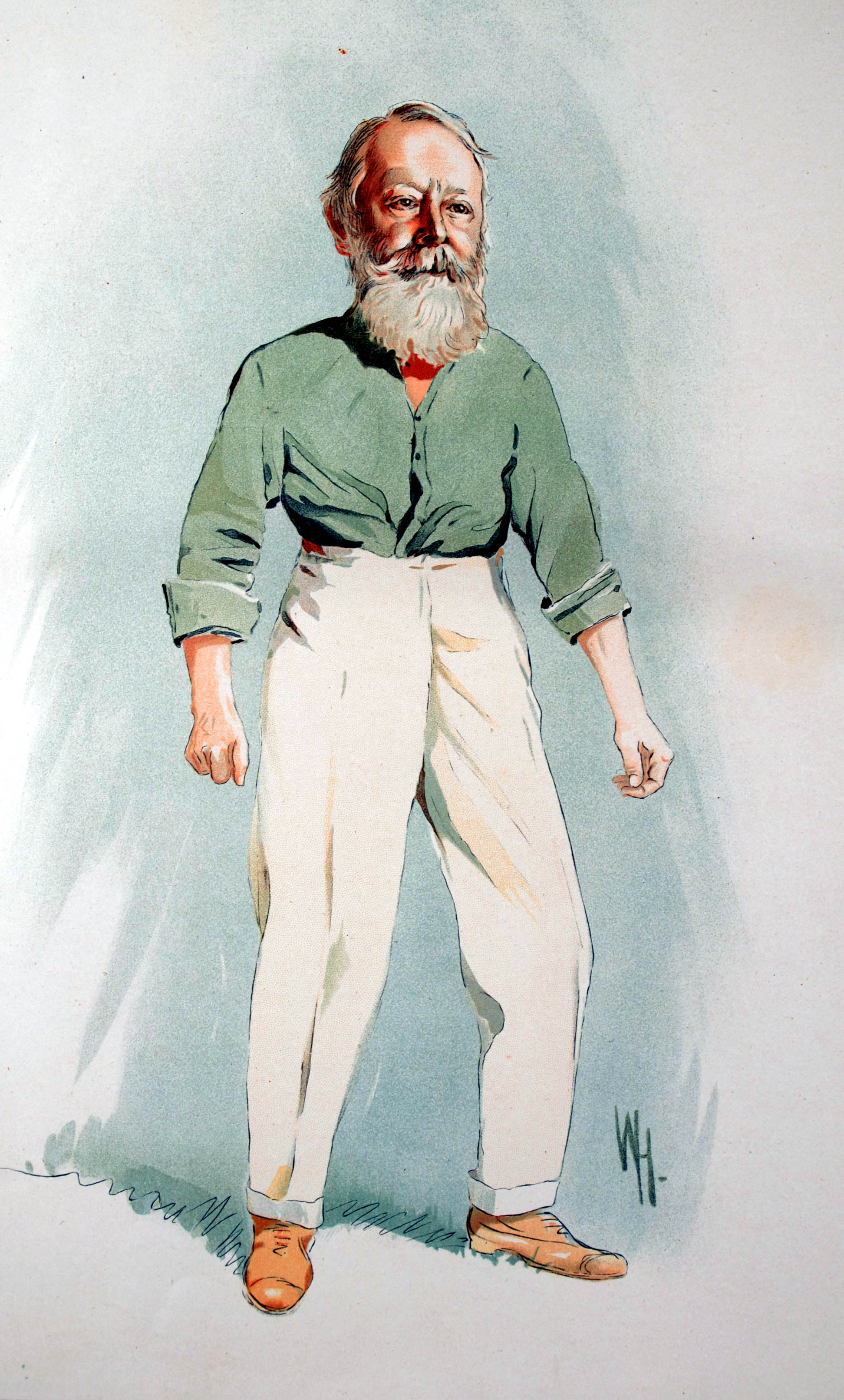 Caricature of Arthur Kinnaird, 11th Lord Kinnaird. Caption read "Soccer".